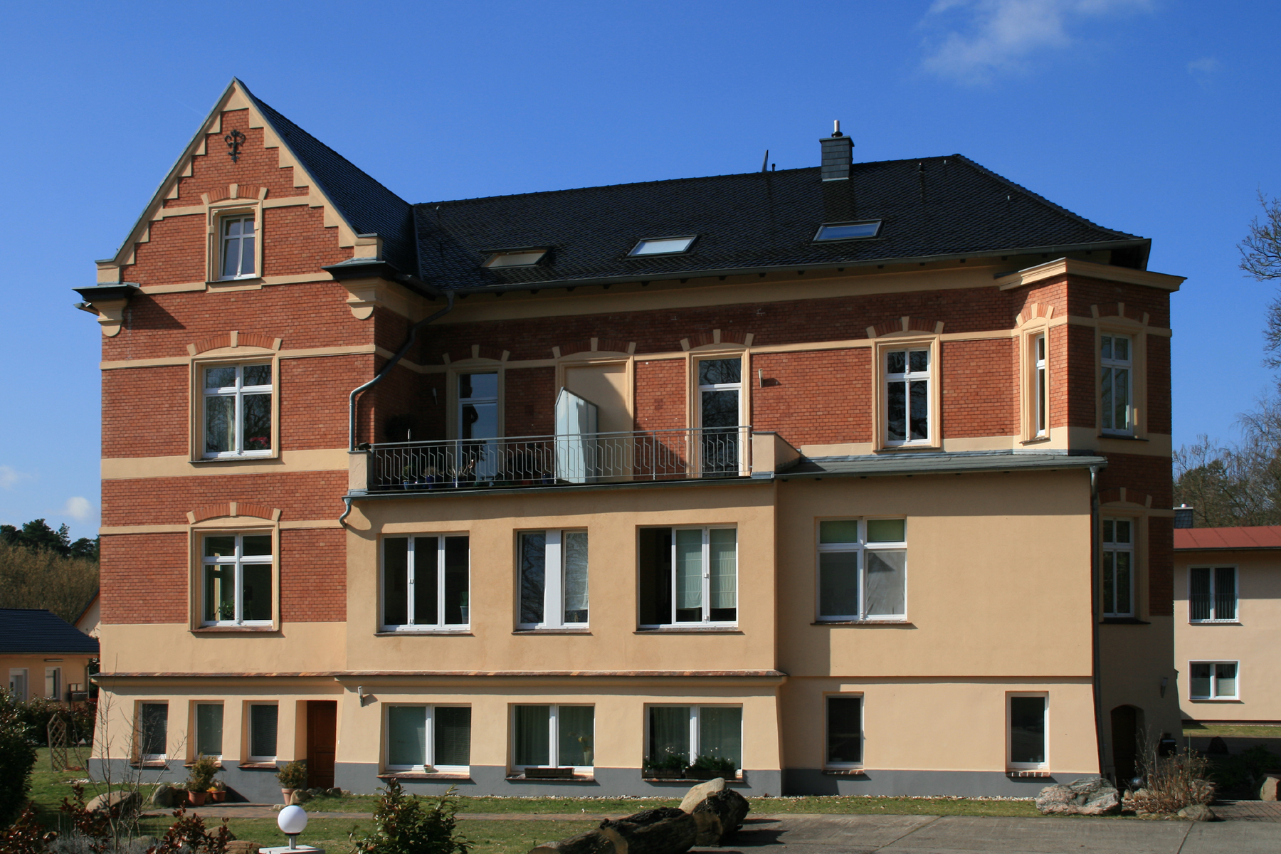 Deutscher Freiheitssender 904. Former redaction and studio in Berlin-Friedrichshagen.